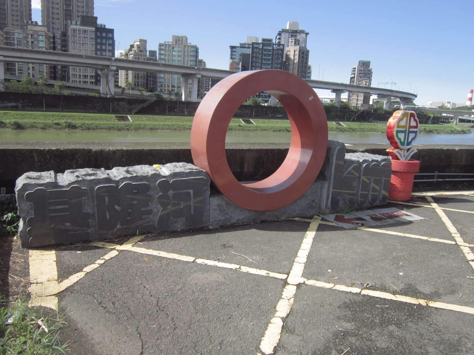 Bikeways_starting point_in_Xizhi District.